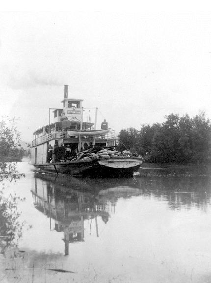 Ptarmigan sternwheel steamer on Columbia River in British Columbia, ca 1905.